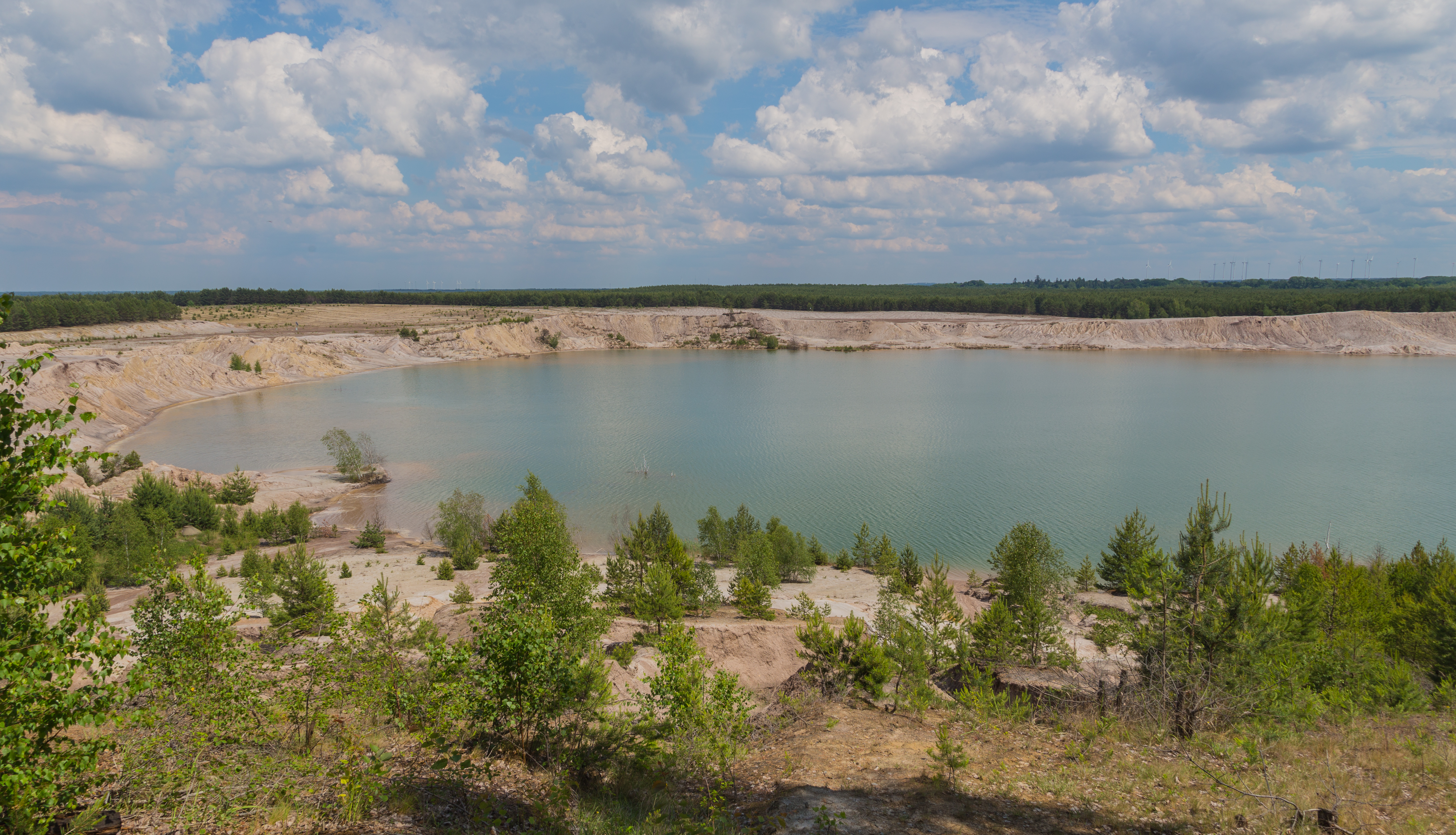 Lake Stiebsdorf (Stiebsdorfer See) between Fürstlich Drehna, district of Luckau, Landkreis Dahme-Spreewald, and Crinitz, Landkreis Elbe-Elster, both Brandenburg, Germany. The lake belongs to Sielmanns Naturlandschaft Wanninchen and also to Drehnaer Weinberg und Stiebsdorfer See Nature Reserve (Naturschutzgebiet Drehnaer Weinberg und Stiebsdorfer See).